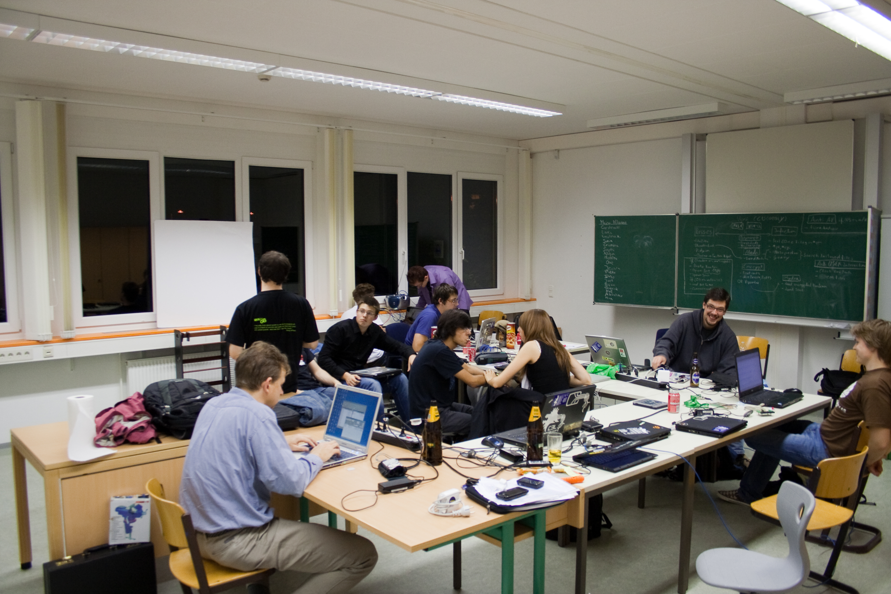 Chill space at syn2cat hackerspace, Luxembourg